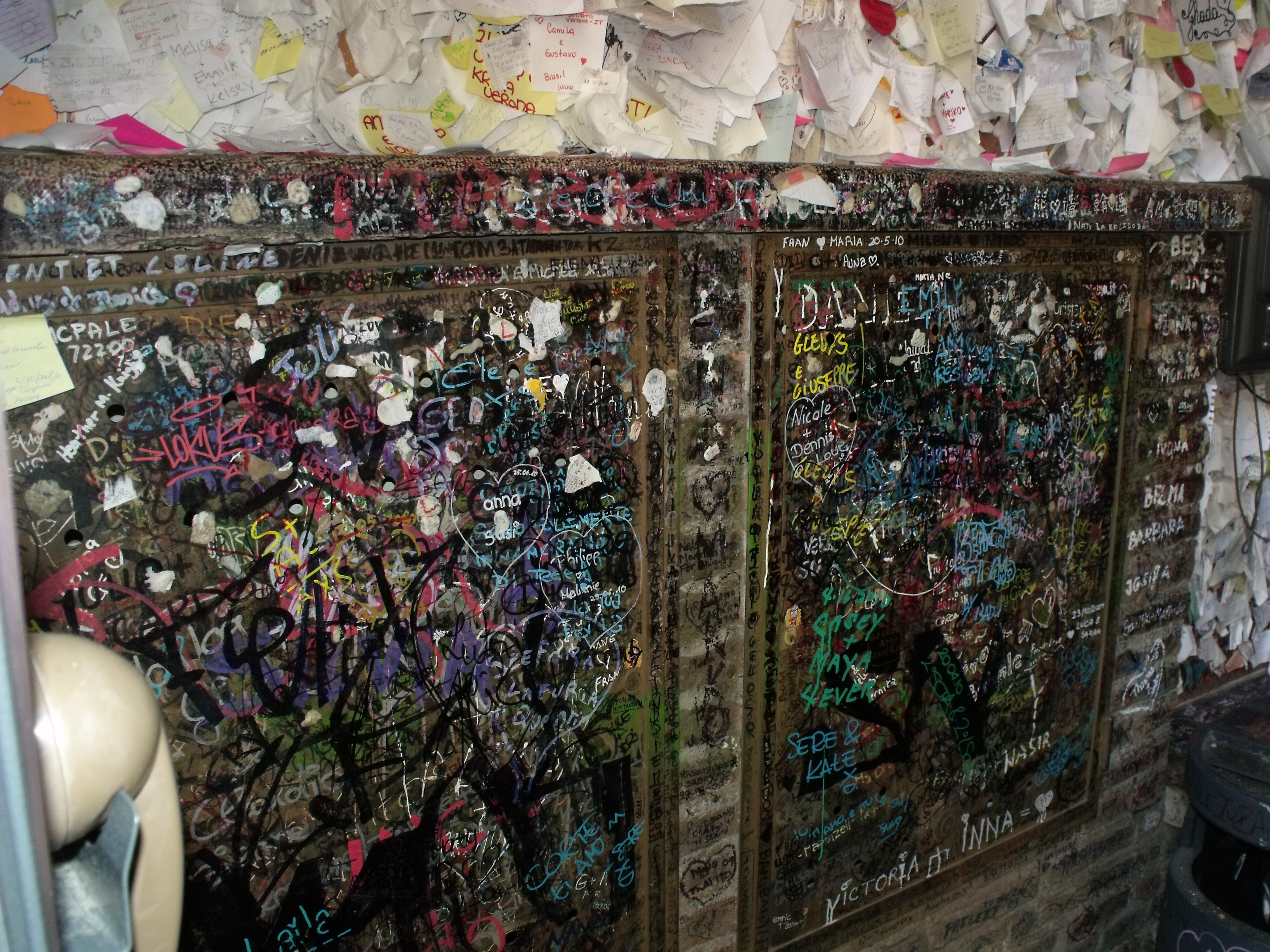 This is Juliet's House on Via Cappello in Verona. It is the site that inspired the balcony from William Shakespeare's Romeo and Juliet. The play was famously set here in Verona, Italy.